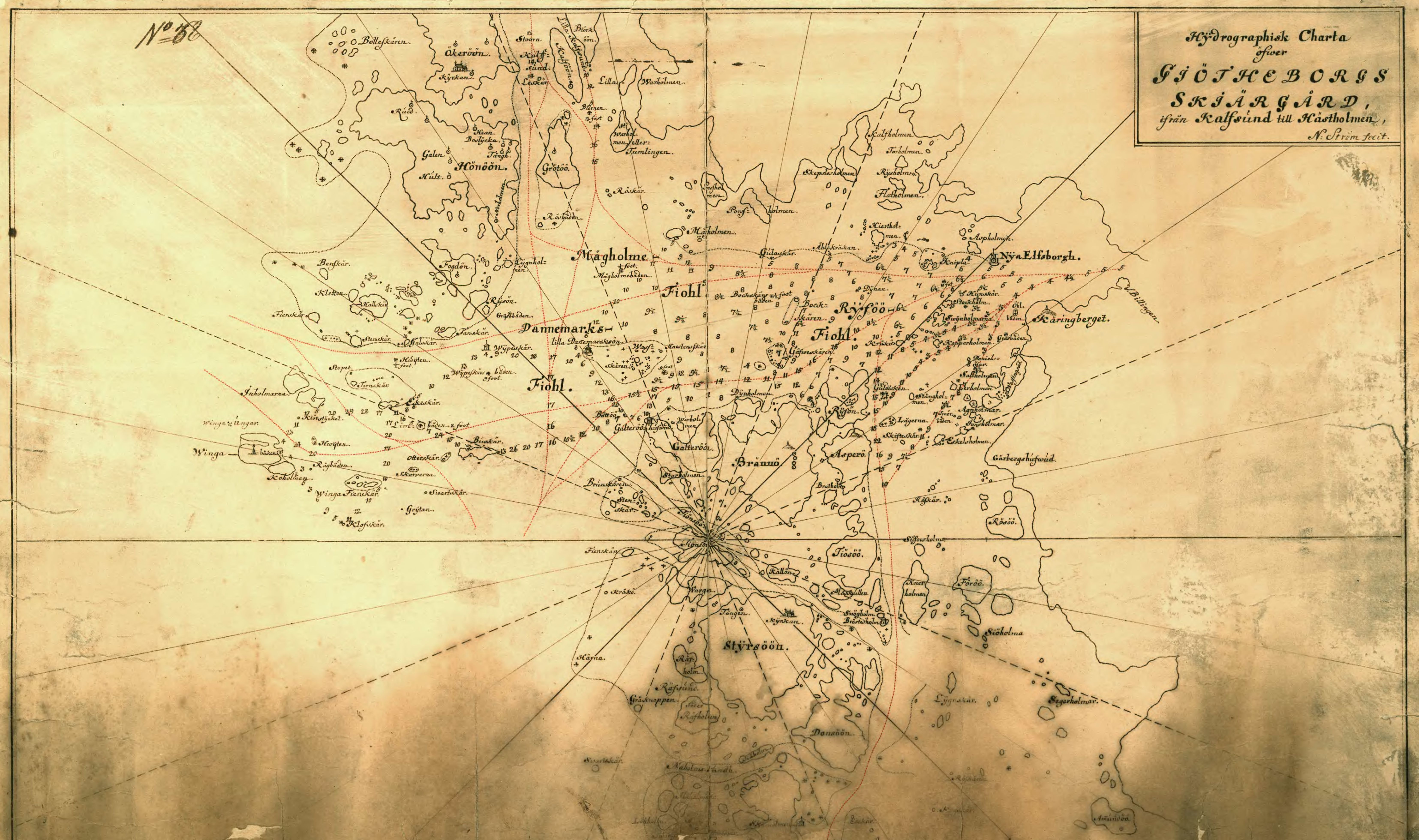 Map over Gothenburg arcipelago, Sweden